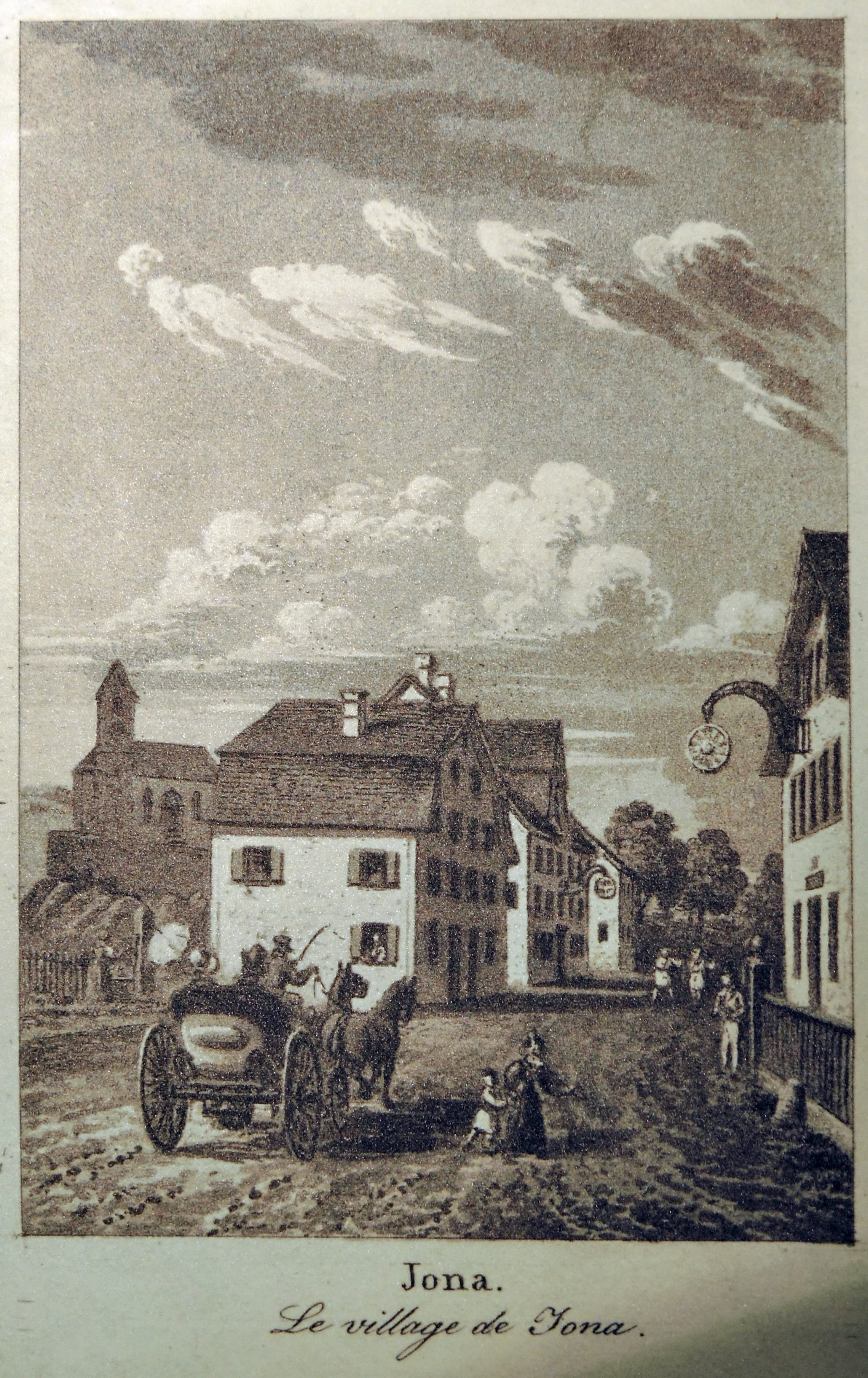 Jona (Switzerland), Mariae Himmelfahrt & St. Valentin to the left.